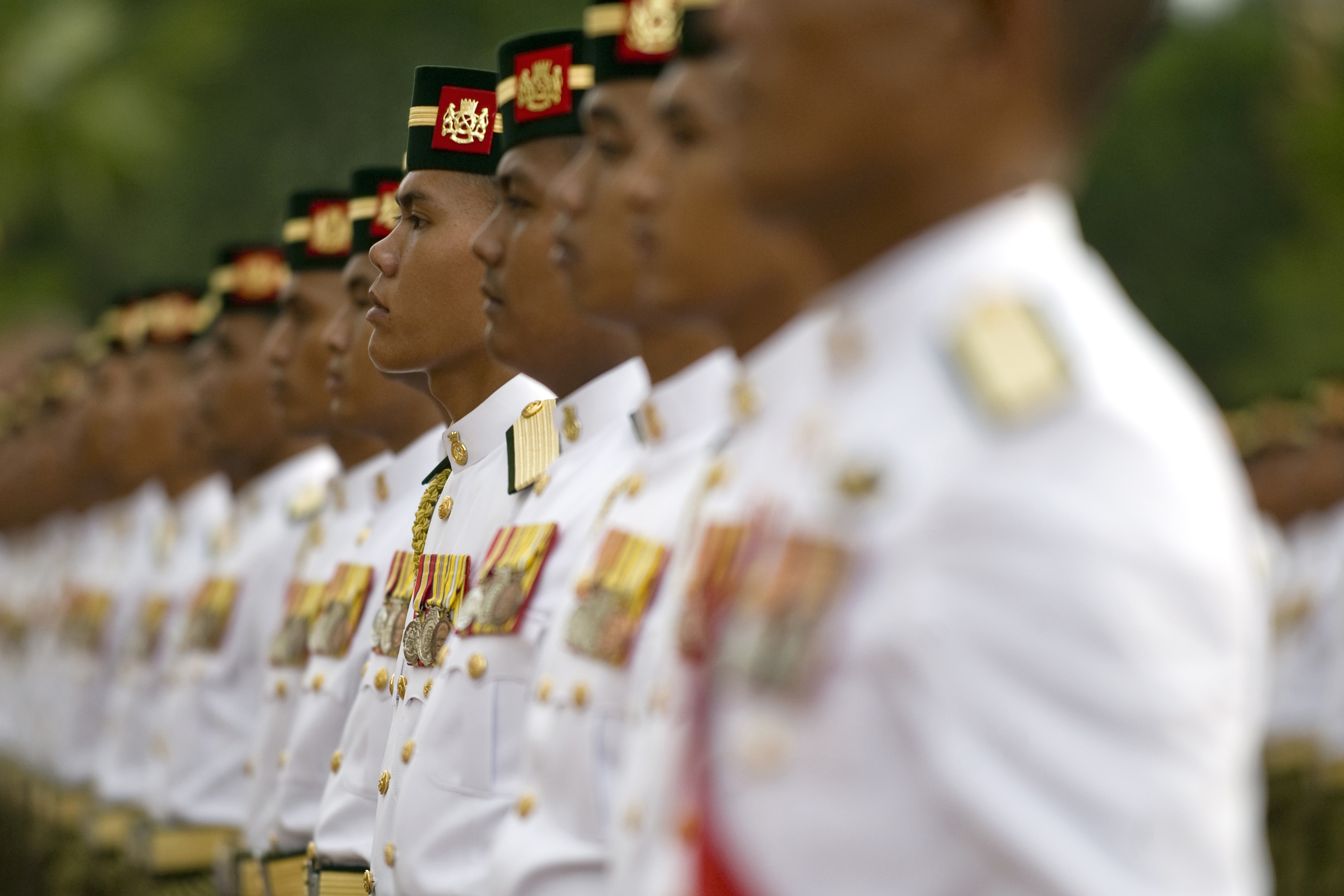 U.S. Defense Secretary Robert M. Gates reviews the troops during an honor arrival ceremony at the Ministry of Defense in Kuala Lumpur, Malaysia.